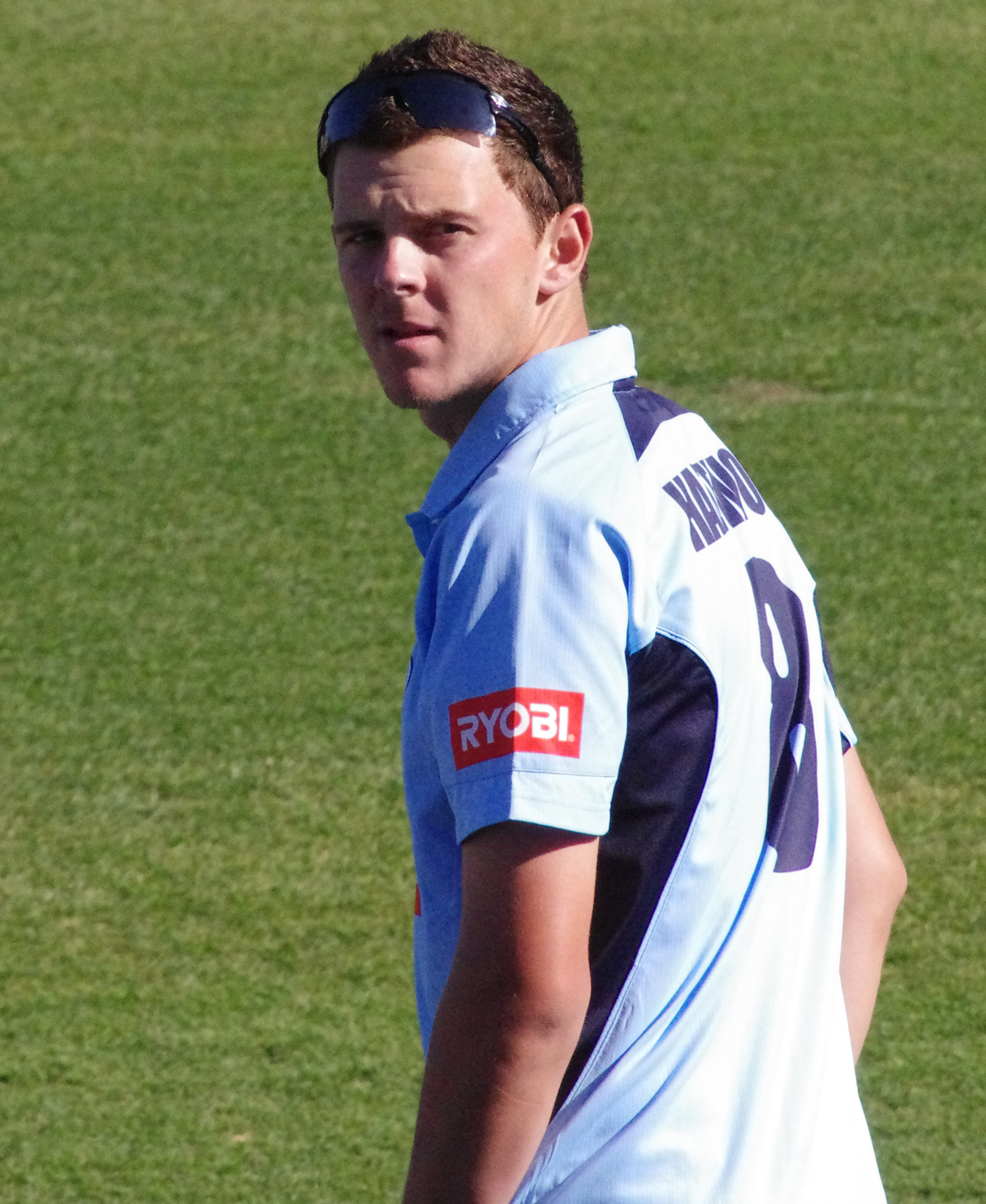 Australian cricketer Josh Hazlewood